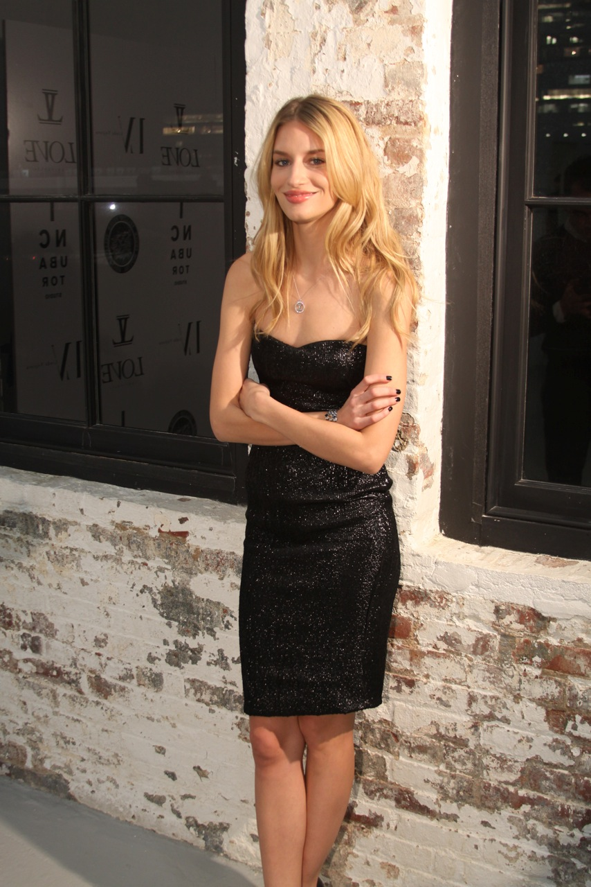 Linda Vojtova at Love Linda Vojtova exhibition in NYC.